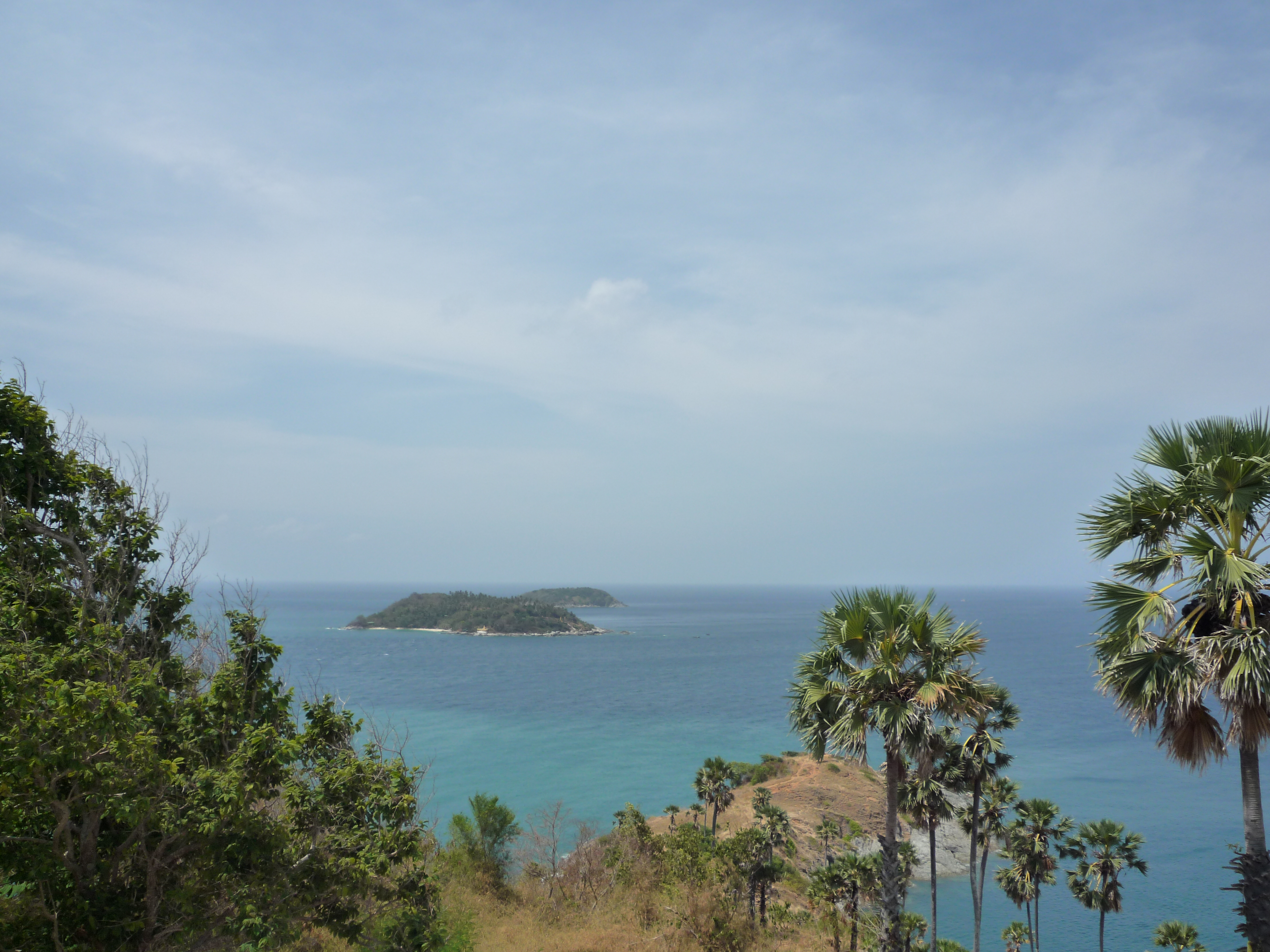 Promthep Cape The island in the front is Ko Kaeo Yai. The one behind it is Ko Kaeo Noi.